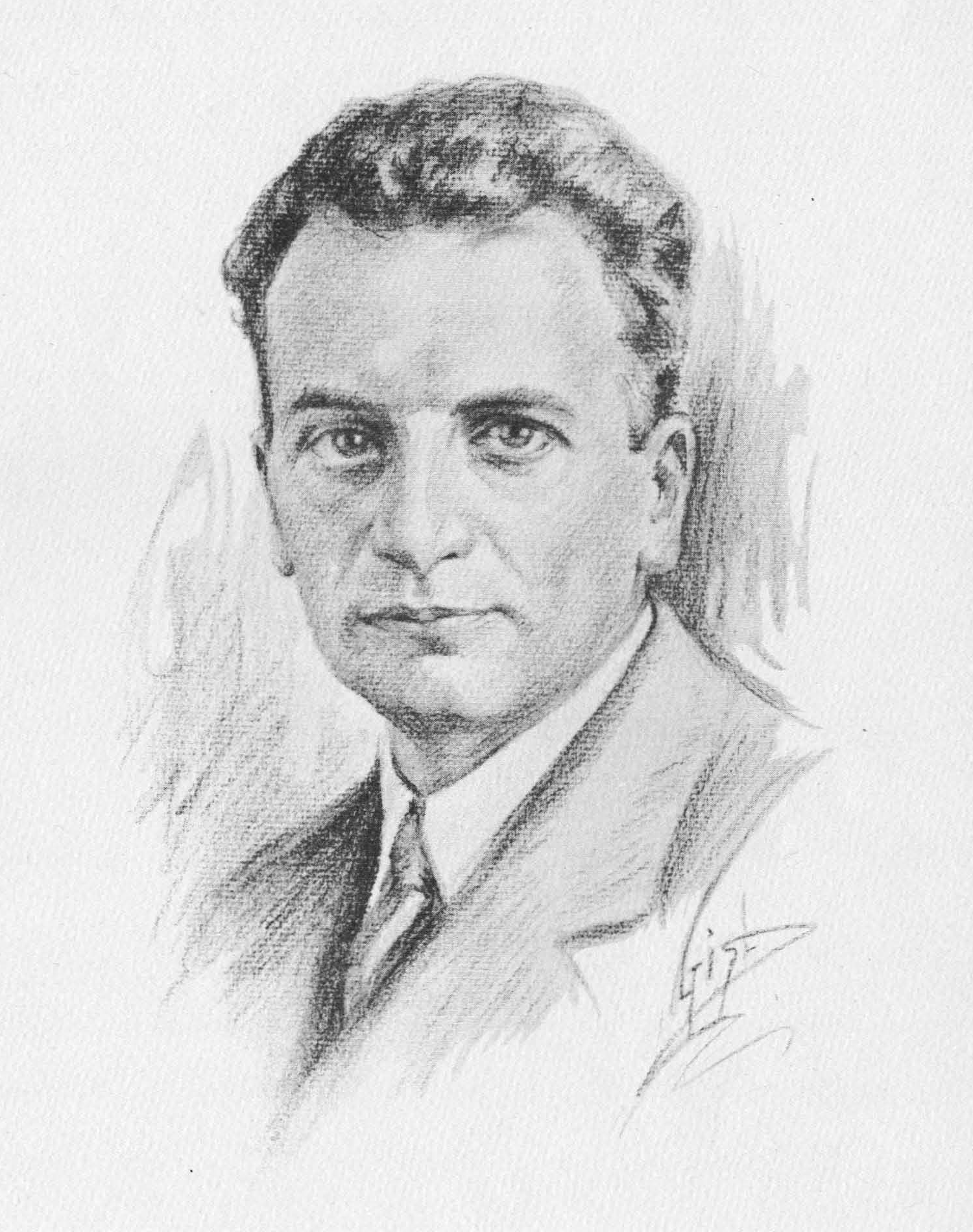 1931 sketch of California Institute of Technology Professor Theodor von Kármán